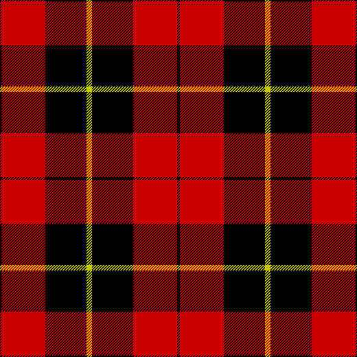 Wallace tartan, as published in the Vestiarium Scoticum. Modern thread count: Bk4 R64 Bk60 Y8.